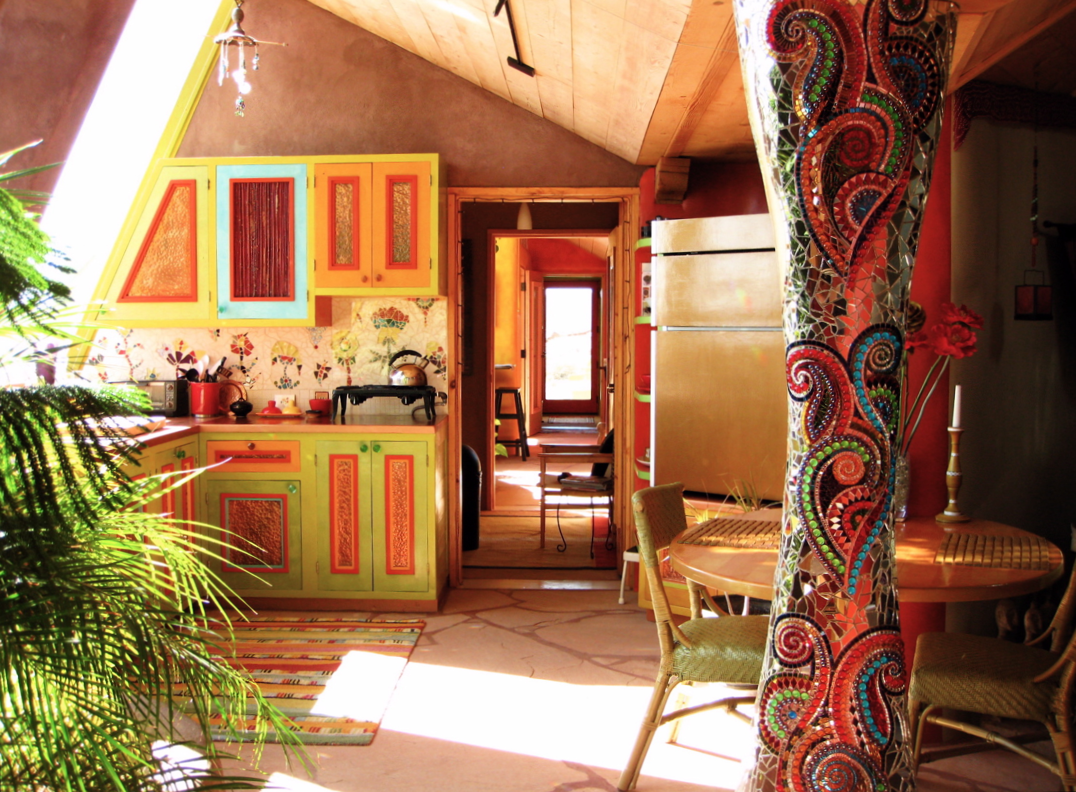 Interior of the Solaria Earthship with sun coming in from the south facing windows (Taos, New Mexico)